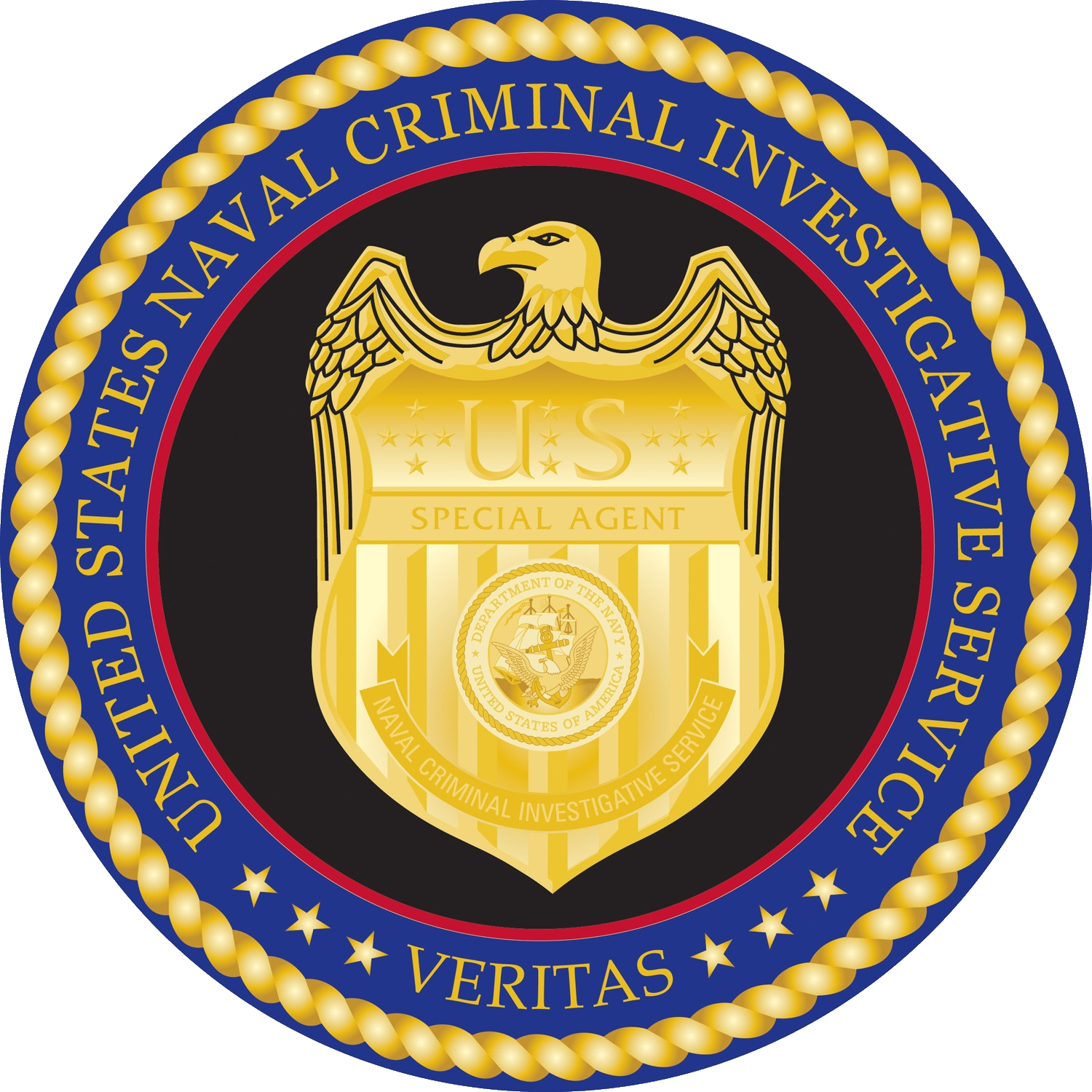 Naval Criminal Investigative Service seal officially updated as of 2012.